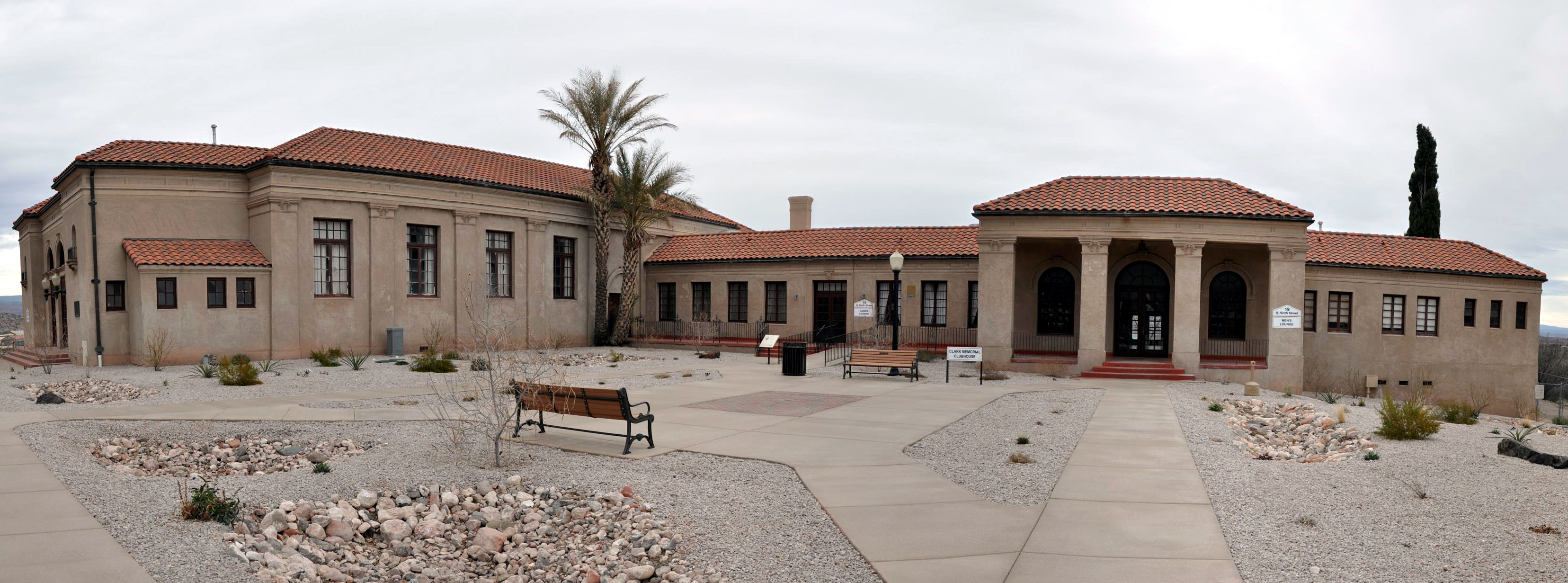 Clark Memorial Clubhouse in Clarkdale in the U.S. state of Arizona. The clubhouse was built as part of a planned community (company town) near the United Verde Copper Company's smelter in Clarkdale. The panorama was assembled from 10 vertical images. This panoramic image was created with Autostitch (stitched images may differ from reality).